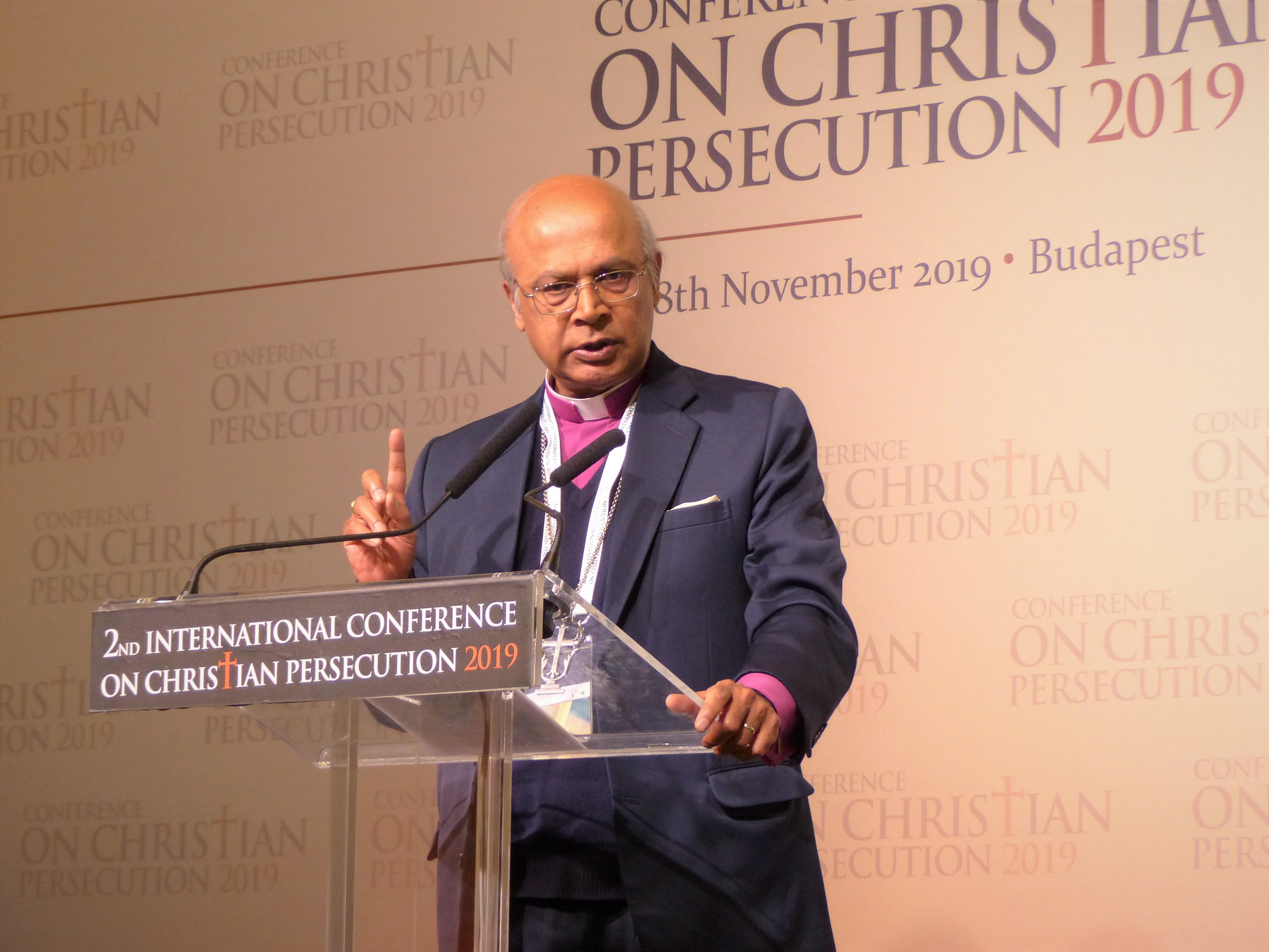 Bishop Michael Nazir-Ali. II. International Conference on Christian Persecution